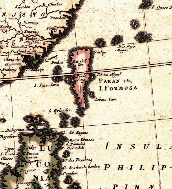 Independent from China